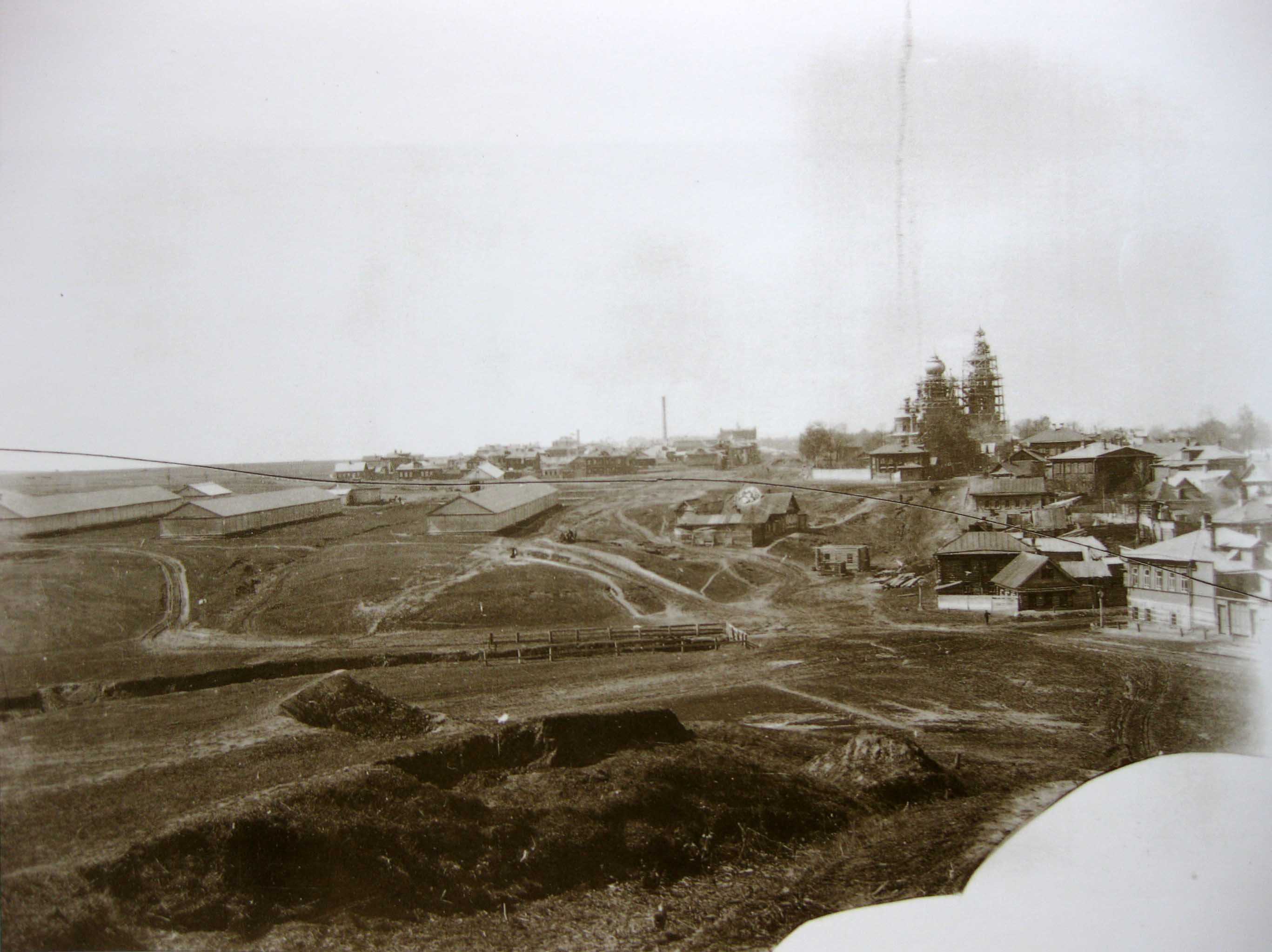 Construction of Church of Our Merciful Saviour, Nizhny Novgorod (modern address 177a Gorky St)